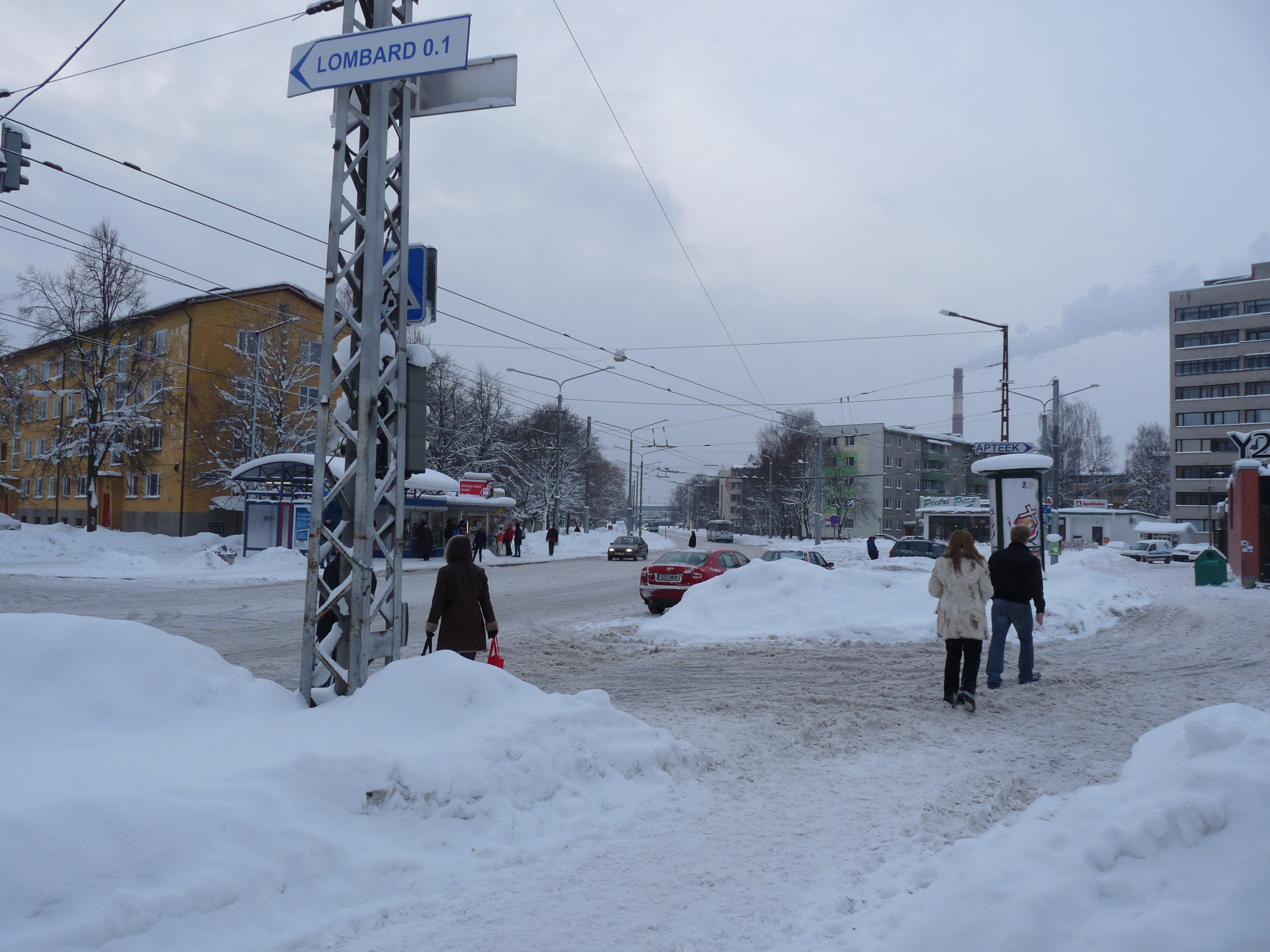 Vilde street in Tallinn